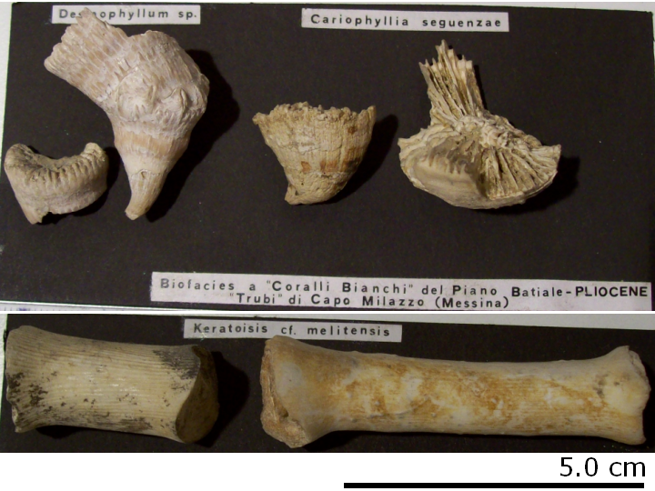 Some examples of fossil corals coming from the "Trubi", a pelagic marly formation, Early Pliocene in age. Eastern Sicily (Italy), Capo Milazzo (Messina). This formation directly overlies Late Miocene evaporitic, brackish water or continental sediments, indicating the sudden interruption of the Mediterranean desiccation episode of Messinian age.